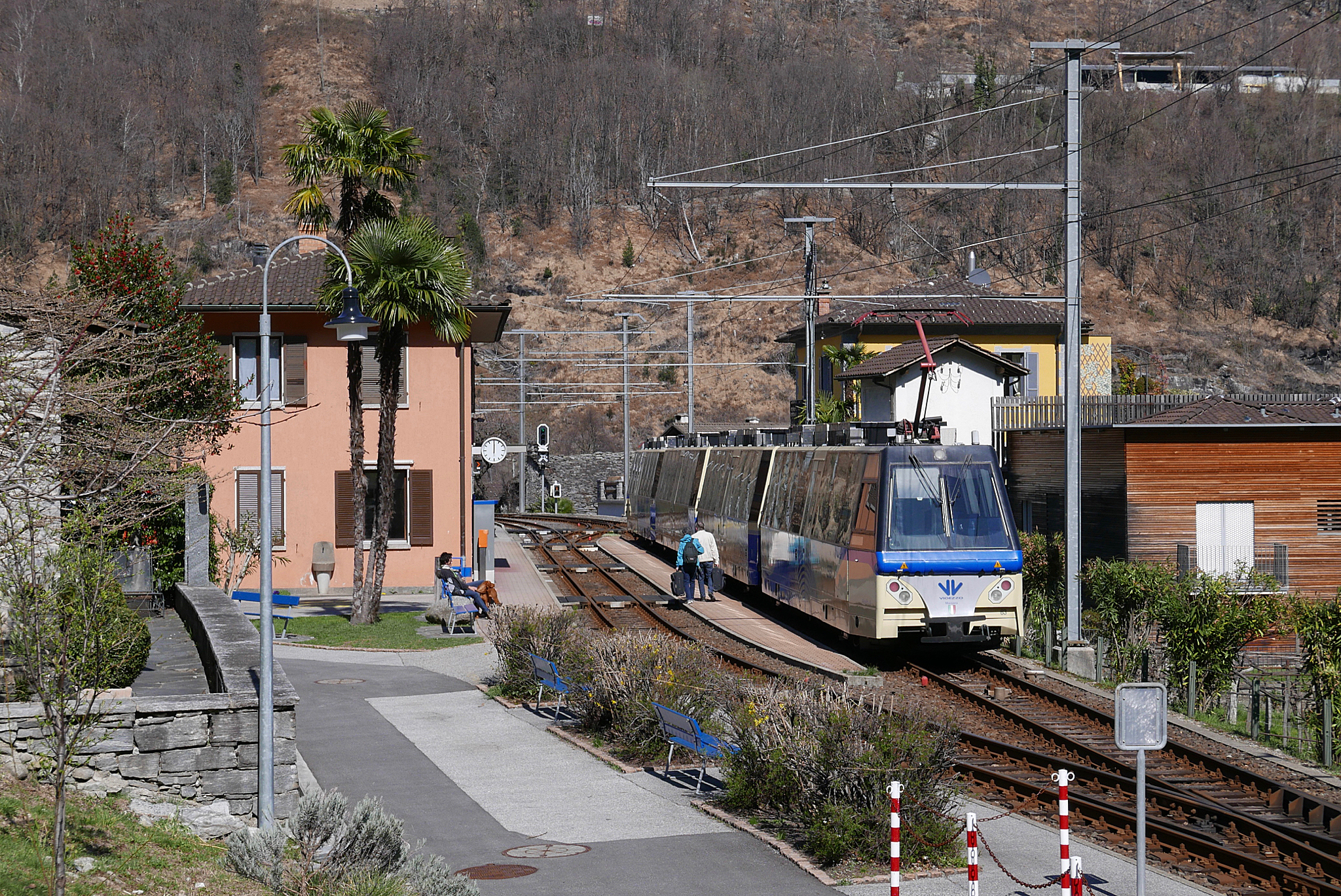 SSIF ABe 4/4 Pp 83 at the tail of D 47 fast train from Domodossola to Locarno while calling at Intragna.